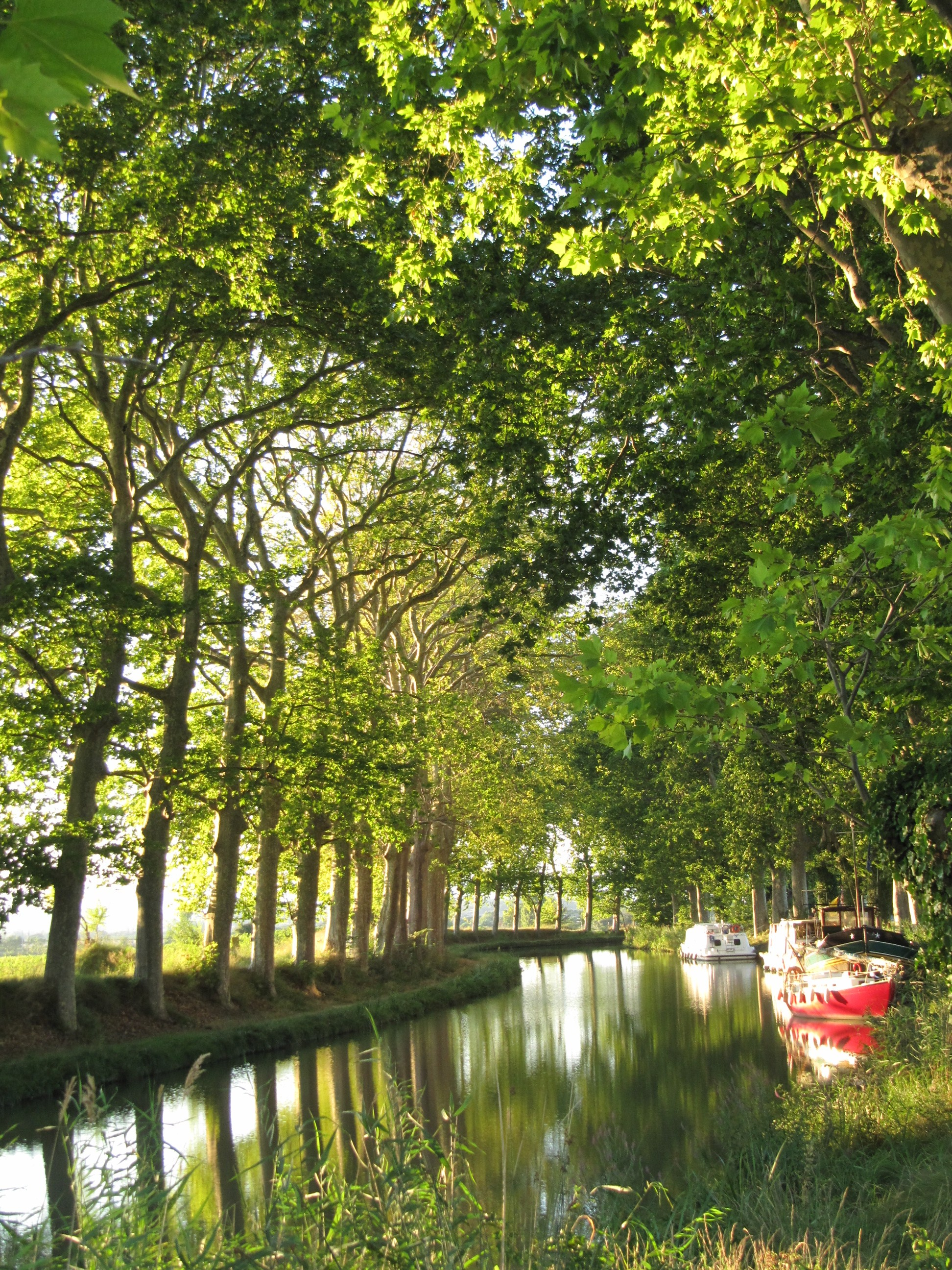 Canal du Midi, near Colombiers